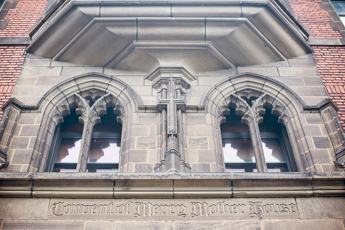 Carlow University Convent of Mercy front facade